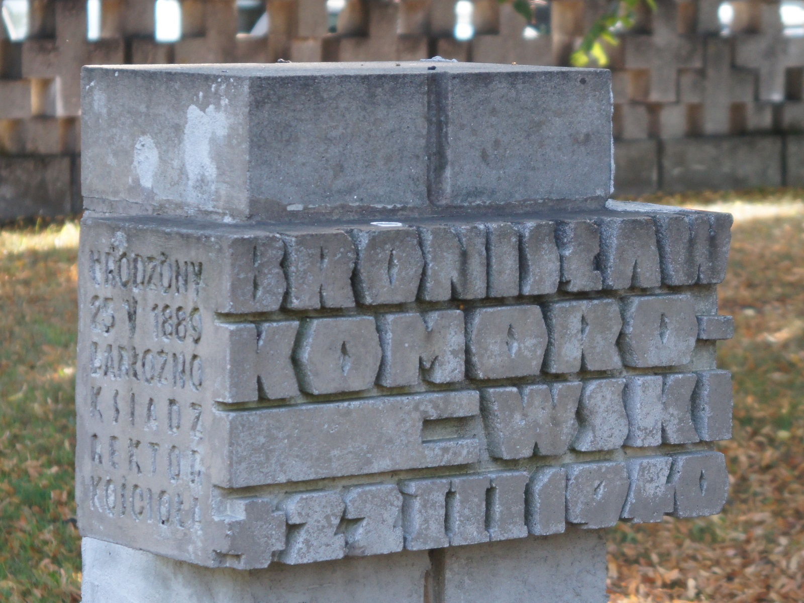 Bronisław Komorowski, Zaspa Cemetery in Gdańsk